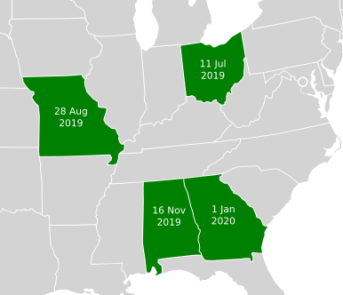 Effect dates of heartbeat bills in U.S. States (20 May 2019)